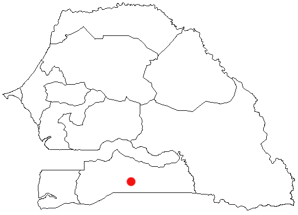 Kolda, Senegal Location Map; created with the GIMP.